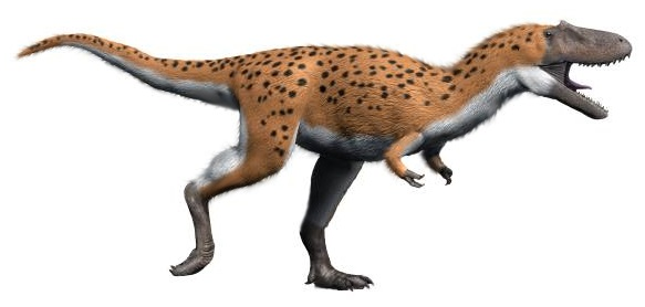 Life reconstruction of Gualicho shinyae